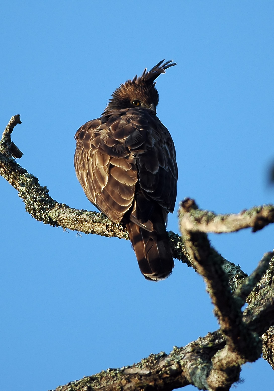 Bandipur National Park, South India.